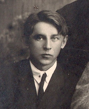 Photo of Belarusian poet and dramatist Vasil Šašalevič